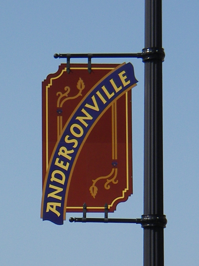 The Andersonville sign, Chicago Ill., photo Arthur Sehn